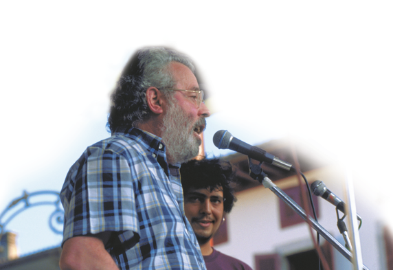 Amuriza